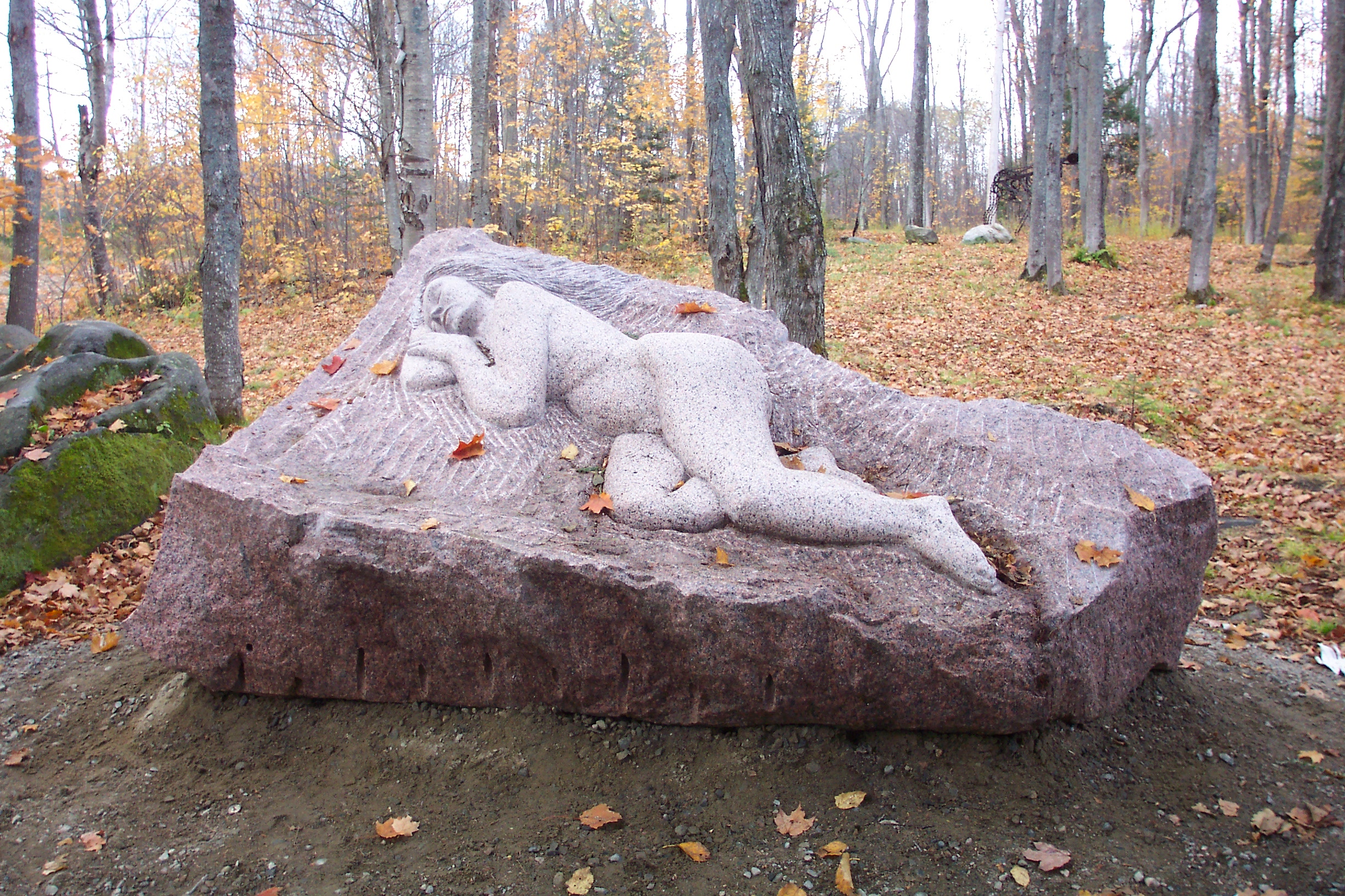 "Sleep of the Huntress" by Doug Stephens, in the Haliburton Sculpture Forest